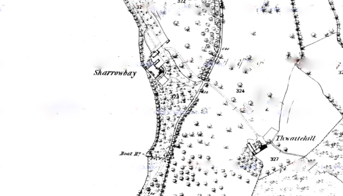 Ordnance Map of Sharrow Bay, Ullswater 1861